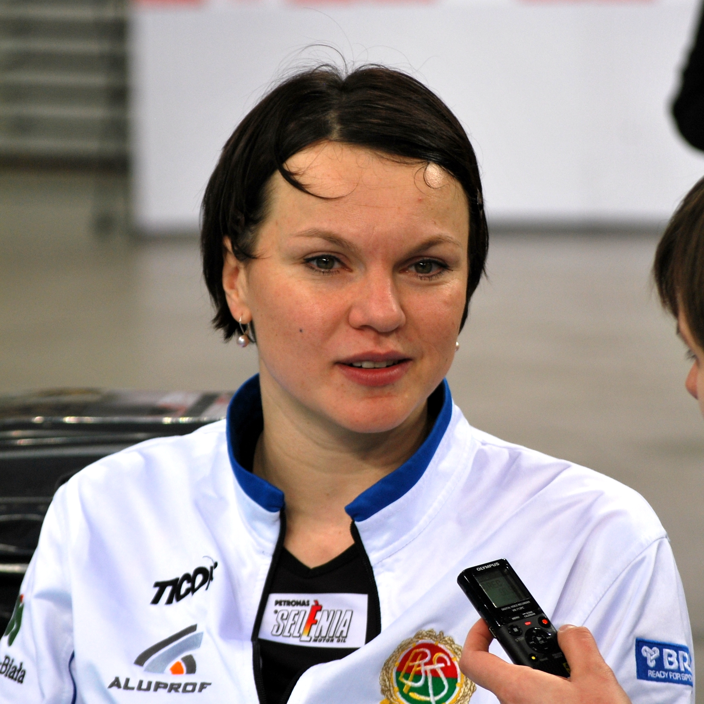 Milada Bergrova, volleyball player from the Czech Republic